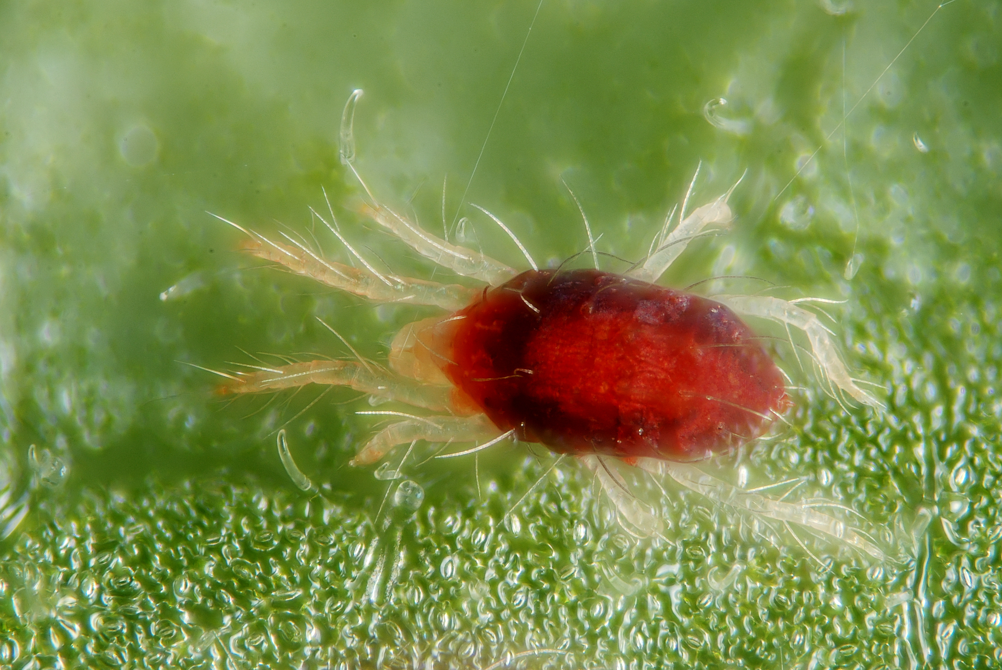 Female of the red form of the spider mite Tetranychus urticae. Scale : mite body length ~0.5 mm Technical settings : - focus stack of 38 images - microscope objective (Nikon achromatic 10x 160/0.25) on bellow